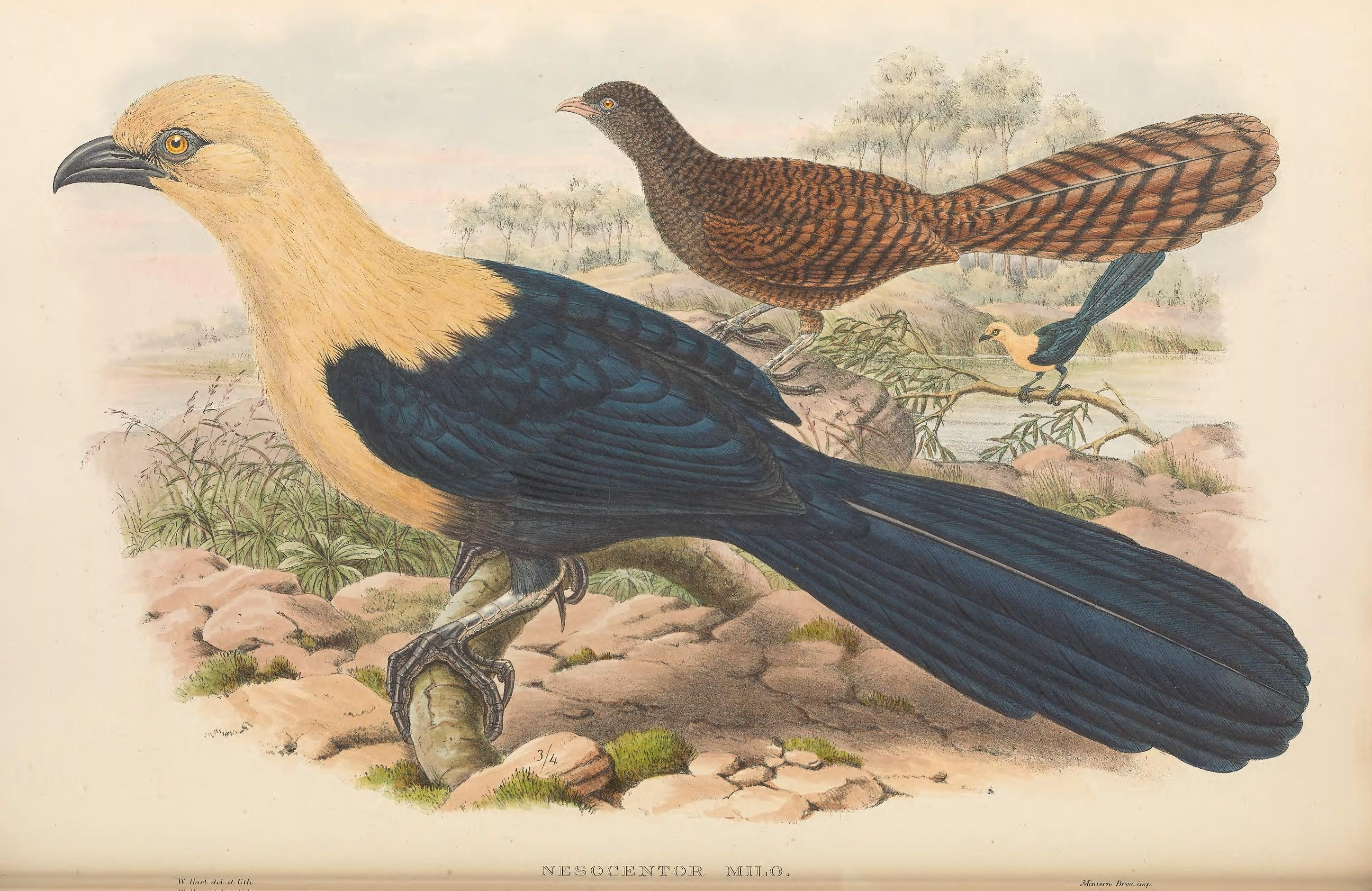 Centropus milo The birds of New Guinea and the adjacent Papuan islands London :Henry Sotheran & Co.,1875-1888. The announcement to release the files with a free license can be found for example at